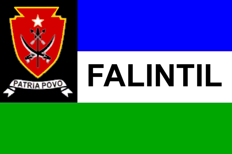 Flag of Defence forces of Timor-Leste F-FDTL